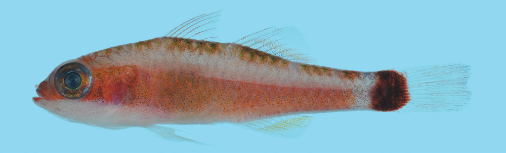 Trimma tevegae male 16 mm, Rabaul